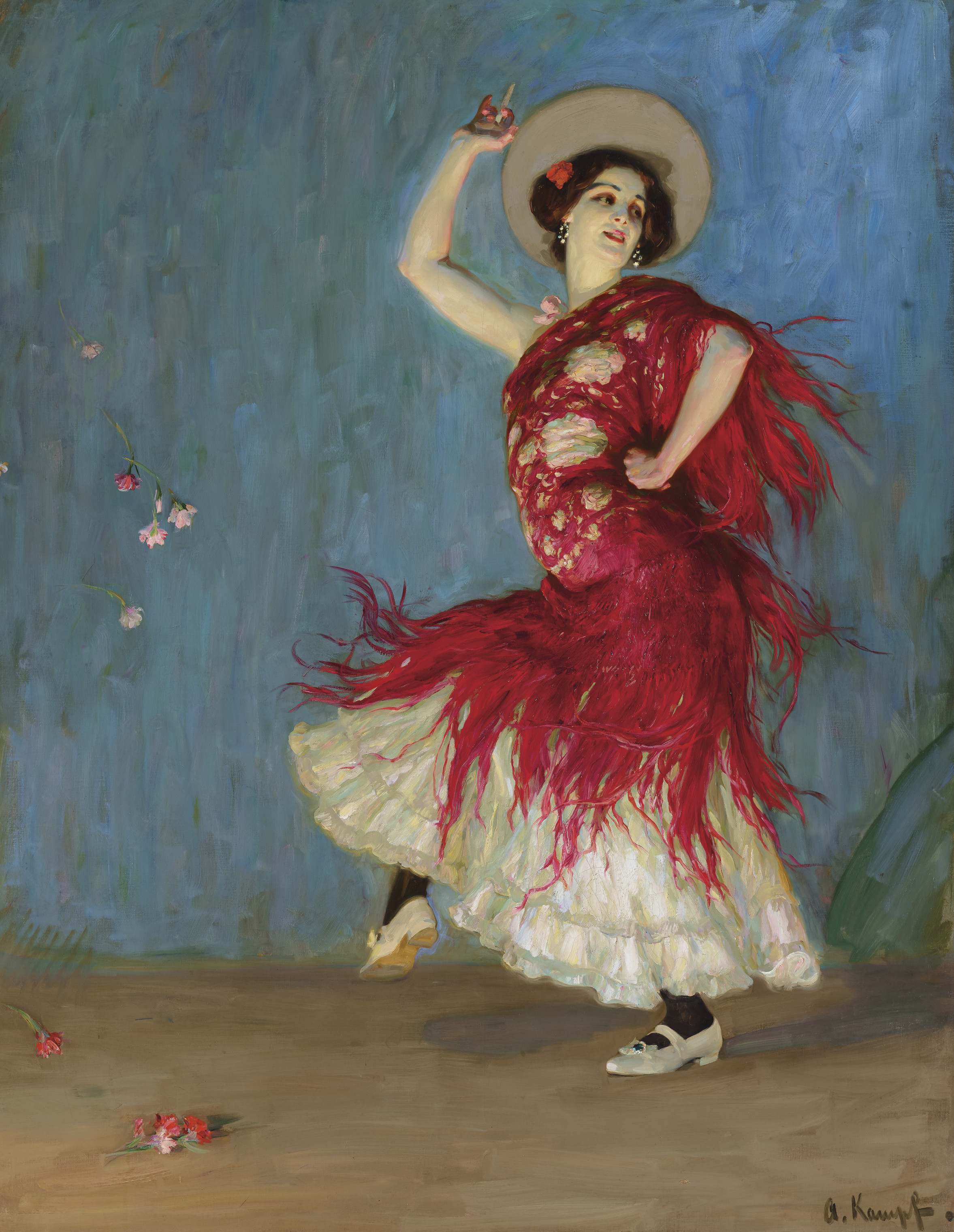 Arthur Kampf (German, 1865-1950) Spanische Tänzerin signed 'A. Kampf.' (lower right) oil on canvas 78 x 61 ½ in. (198.1 x 156.2 cm.)